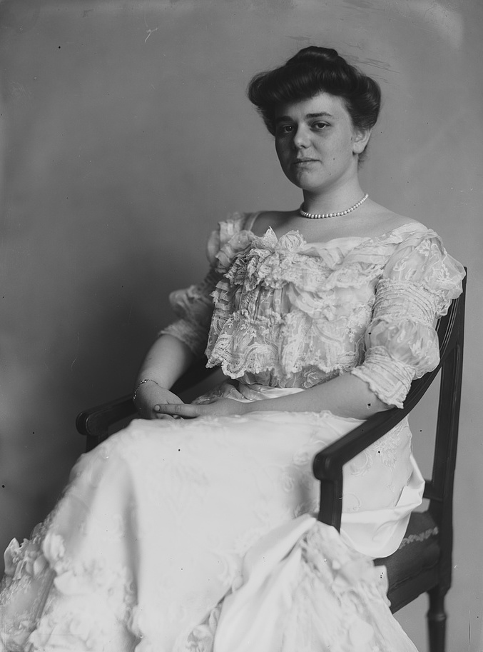 Title Miss Alice Hay Summary Photograph shows three-quarter length portrait of Alice Hay (Mrs. James Wolcott Wadsworth), seated in chair, facing front. She was the daughter of ambassador and statesman John Milton Hay. Contributor Names Johnston, Frances Benjamin, 1864-1952, photographer Created / Published [between 1890 and 1920] Subject Headings - Wadsworth, Alice Hay - Hay, John,--1838-1905--Family Format Headings Glass negatives--1890-1920. Portrait photographs--1890-1920. Notes - Title from negative sleeve. - Forms part of: Frances Benjamin Johnston collection (Library of Congress). Medium 1 negative : glass. Call Number/Physical Location LC-J698- 100130 [P&P]